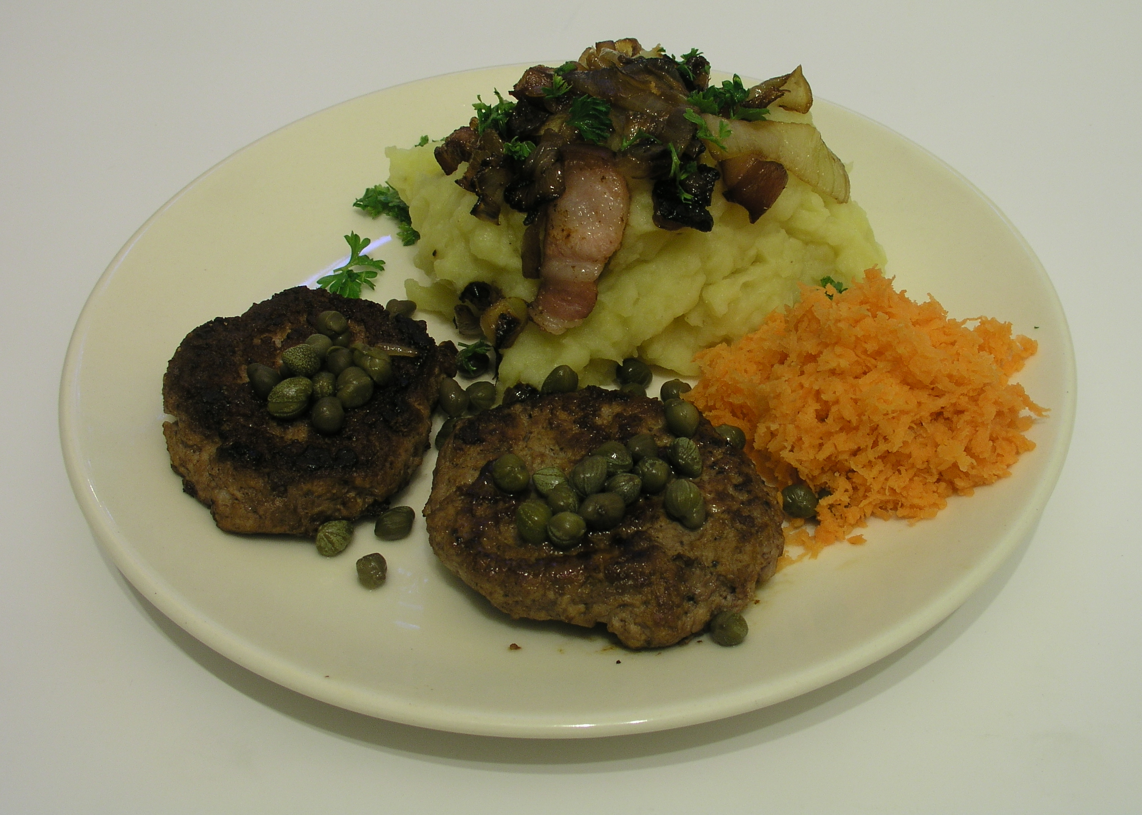 "Brændende kærlighed" - a dish well known in Denmark (mashed potatoes, fried ham and slowly roasted "soft" onions. Here additionally with minced meat steaks and capers